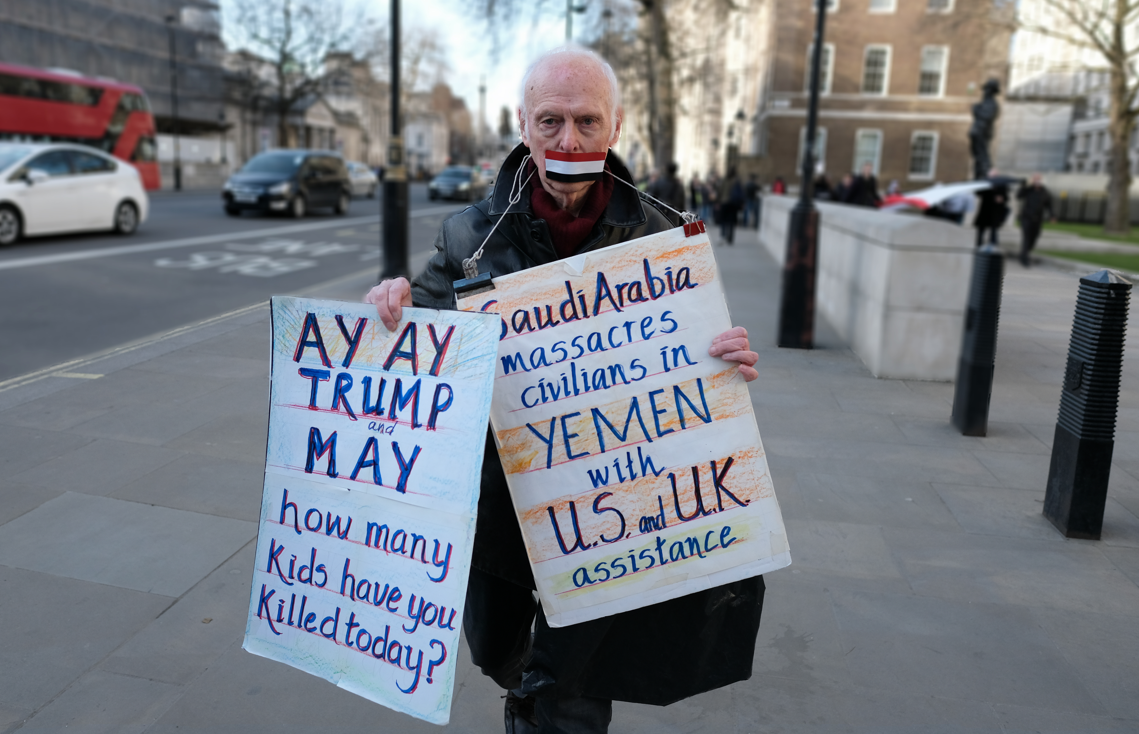 To mark the third anniversary of the UK backed Saudi terror bombing campaign of Yemen, about a dozen activists staged a protest at Trafalgar Square and later opposite Downing Street.